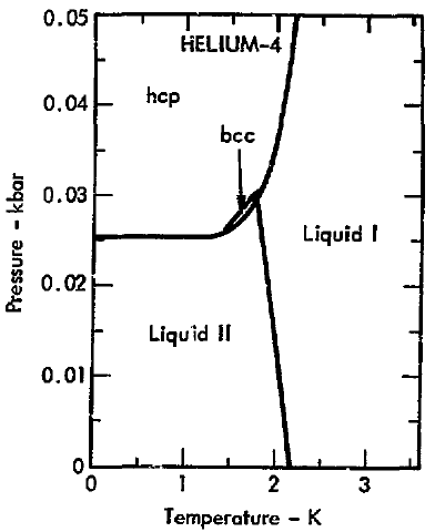 These 1975 phase diagrams are generally incomplete, reaching at most 250 kbar (25 GPa) and thus lacking many high-pressure metallic phases. Taken from "Phase Diagrams of the Elements", David A. Young, UCRL-51902 "Prepared for the U.S. Energy Research & Development Administration under contract No. W-7405-Eng-48". From the document, "DISTRIBUTION OF THIS DOCUMENT IS UNLIMITED"; printed copies were available from the National Technical Information Service.